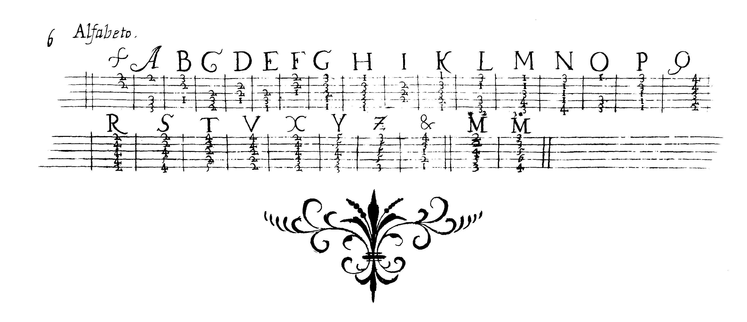 Alfabeto chord chart by baroque guitarist Francesco Corbetta